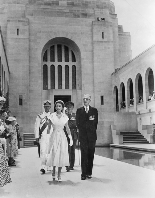 C.E.W Bean, Chairman of the Board of Management of the Australian War Memorial, accompanies Queen Elizabeth II during her visit to the Australian War Memorial in February 1954.